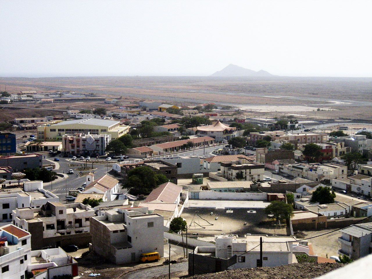 The center of Espargos on the island of Sal, Cape Verde, seen from the radar station. In the background appears the Rabo de Junco